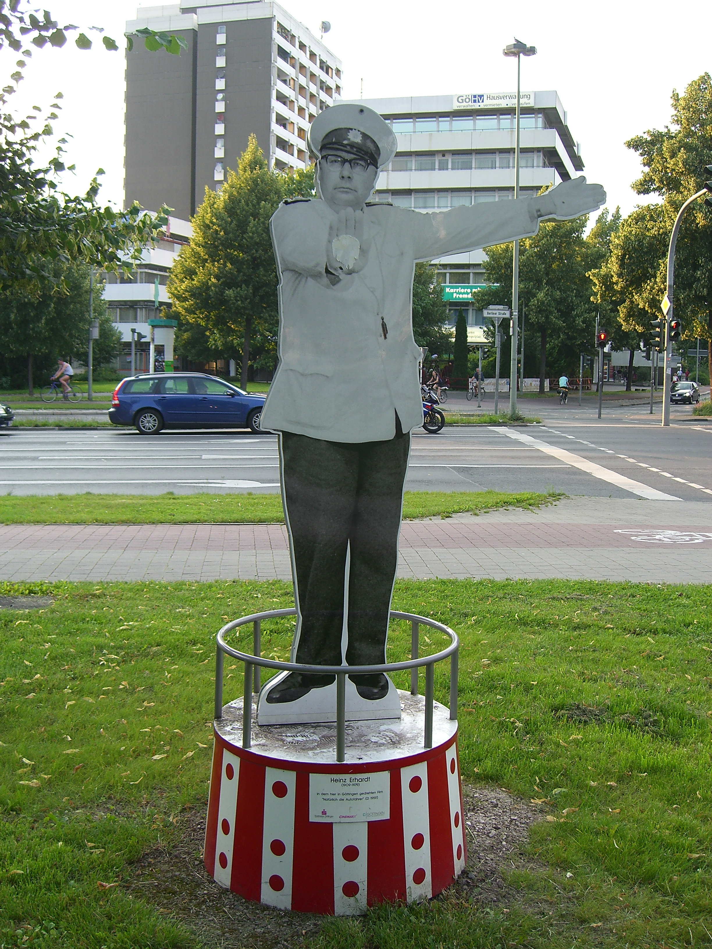 Memorial of actor Heinz Erhardt in Göttingen. Text on the plate: Heinz Erhardt (1909-1979) in the movie ‘Natürlich die Autofahrer’ (Germany 1959), filmed here in Göttingen. Iduna-Zentrum is in the background.